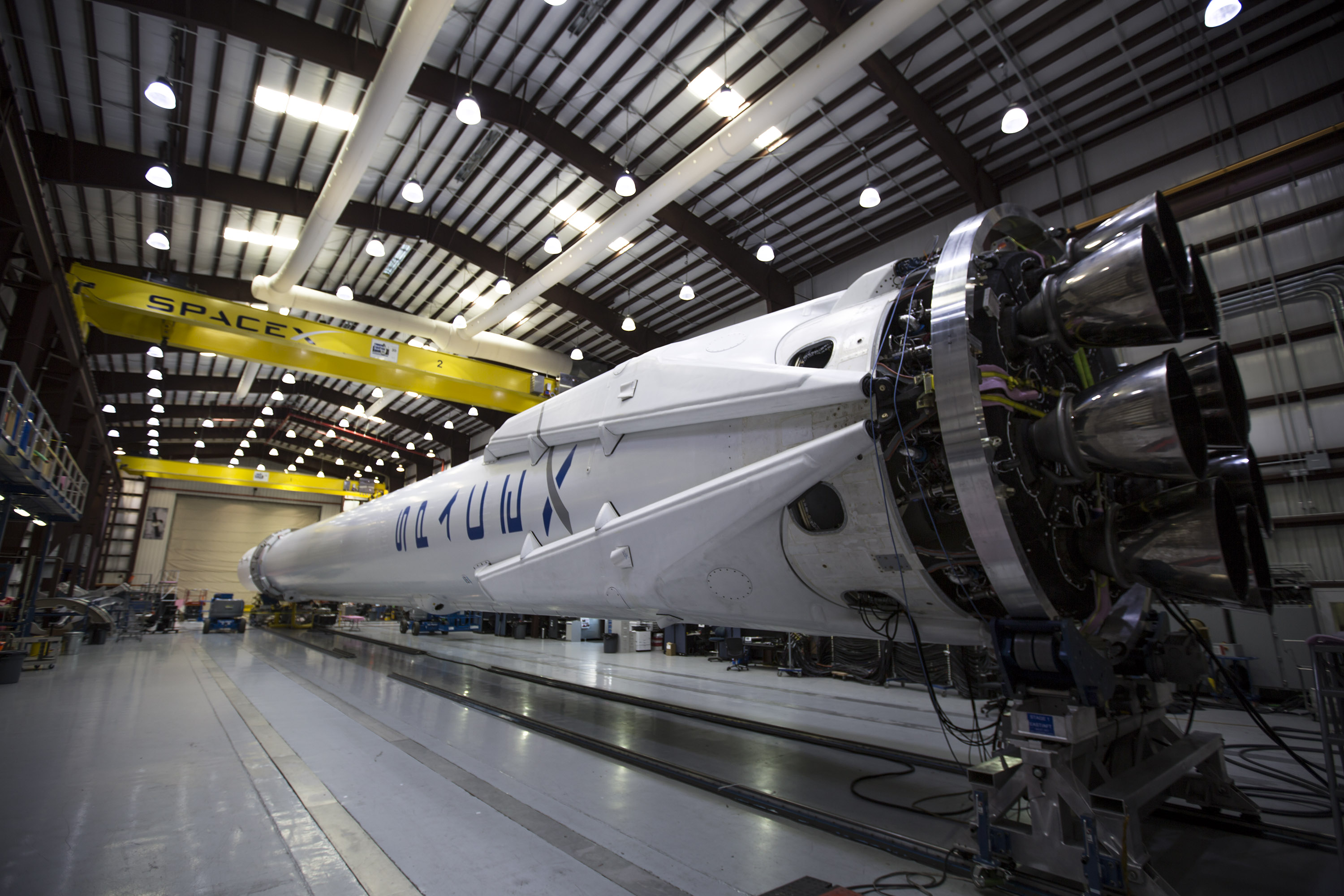 Falcon 9 and Dragon undergoing prep in Florida in advance of 4/13 launch to the International Space Station.